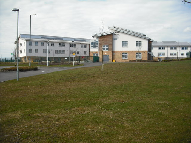 Airdrie Academy Built on the playing fields to the NE of the old buildings. New sports facilities laid out after old building were demolished.